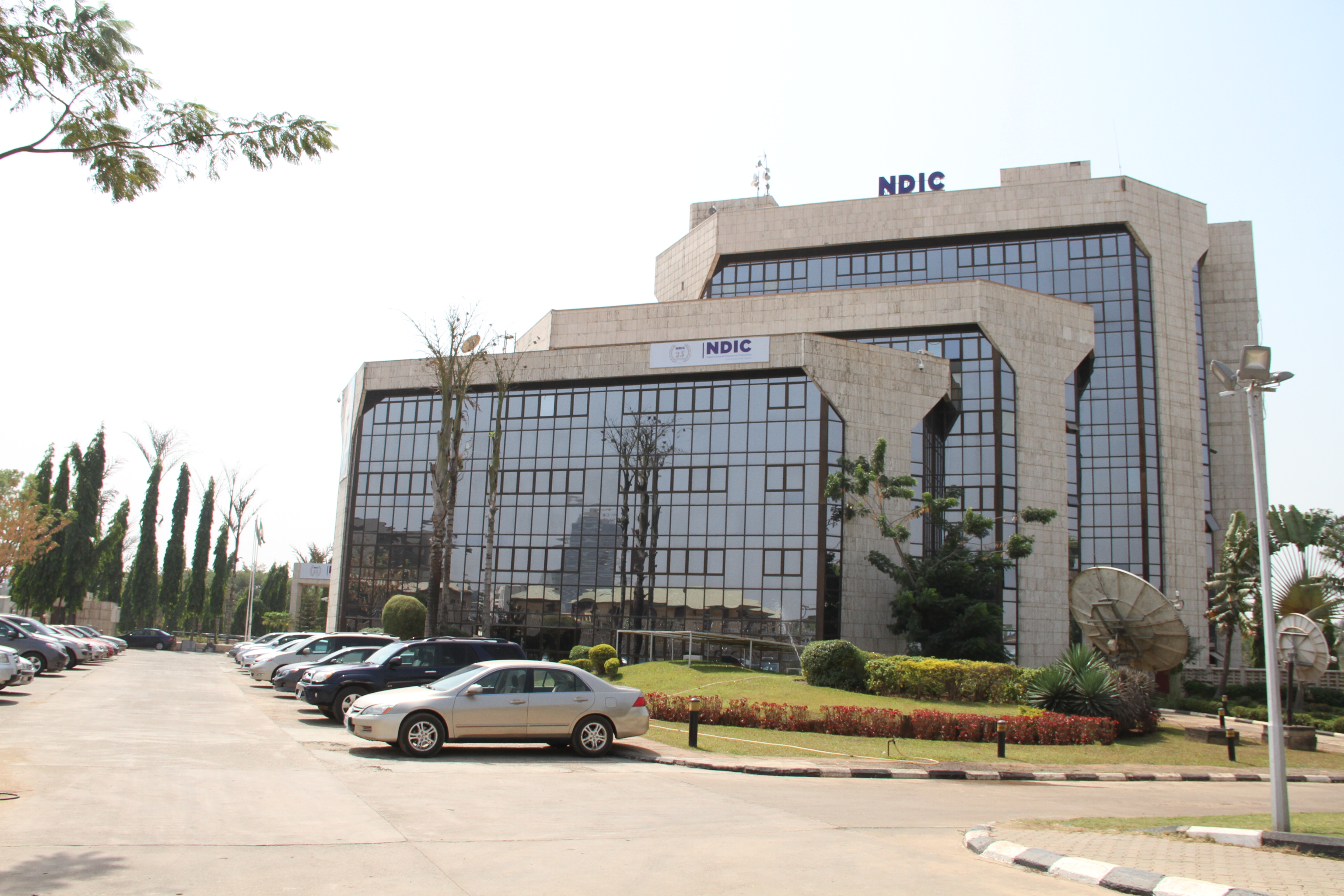 The Nigeria Deposit Insurance Corporation (NDIC) Head Office in Central Business District, Abuja